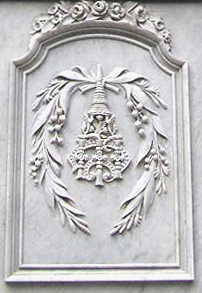 Emblem of Sunandha at Bang Pa In Royal Palace